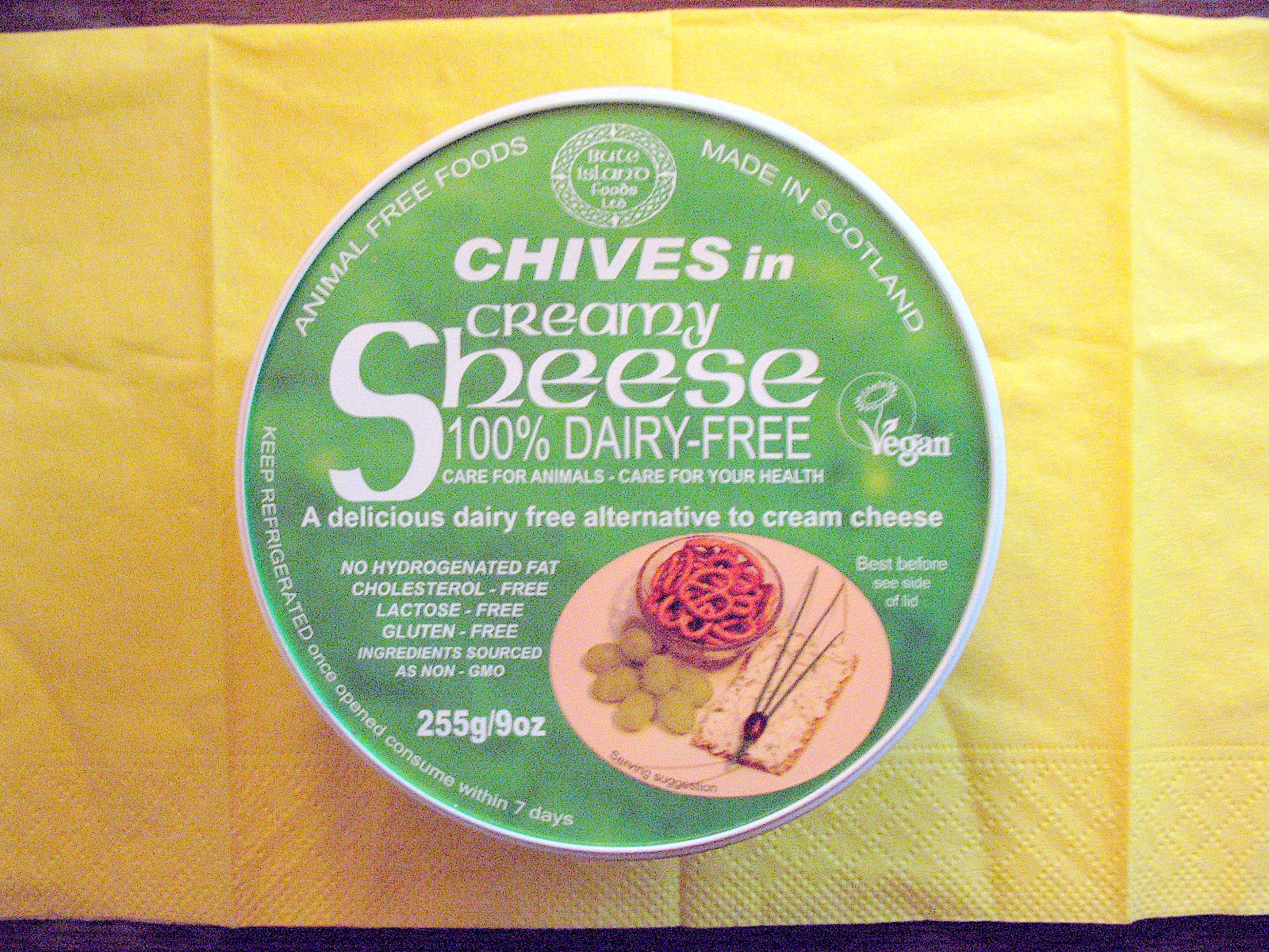 Cream Sheese with chives, a 100% vegan alternative to cheese